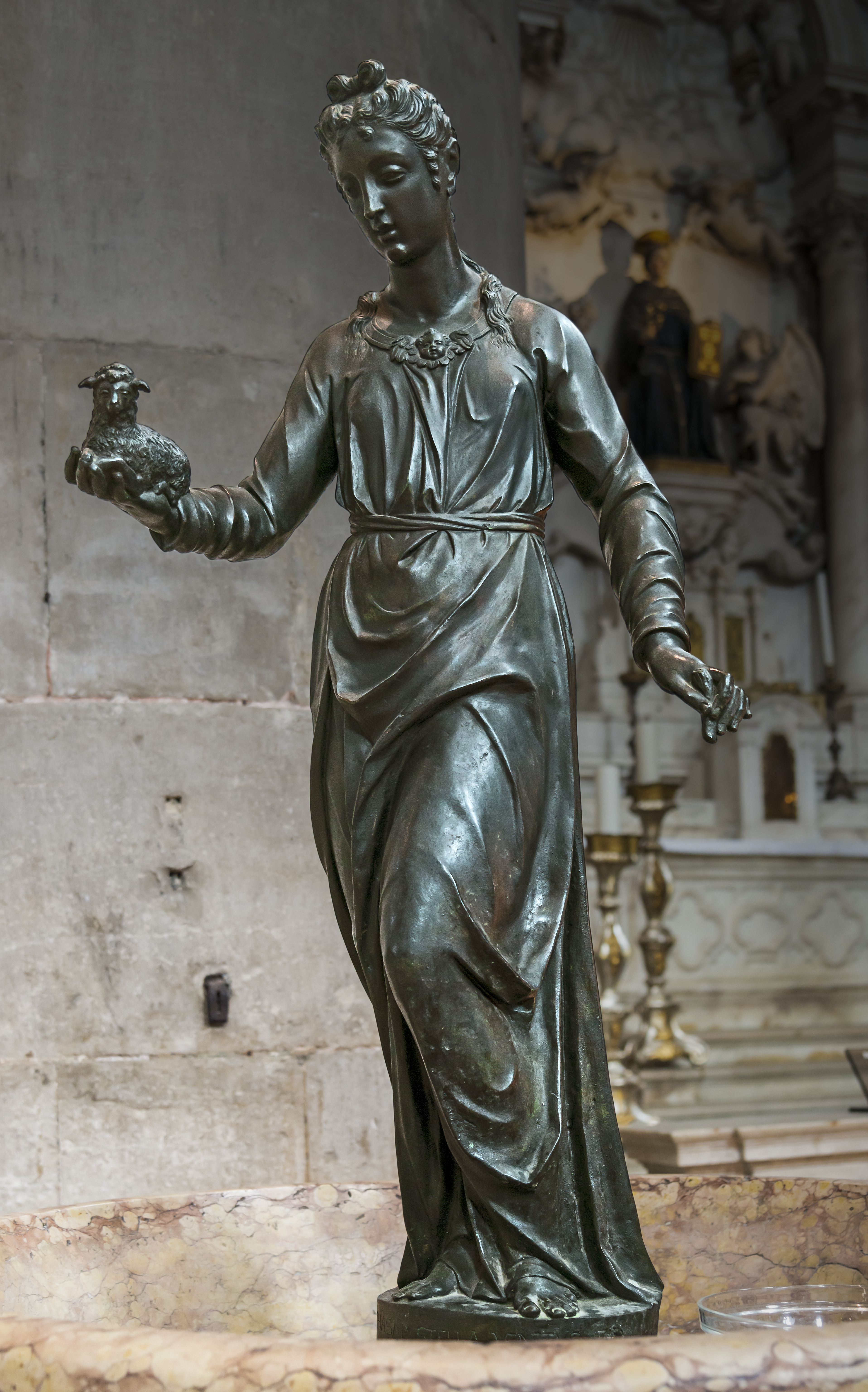 The right side of the nave of the Santa Maria Gloriosa dei Frari.Statue of Agnes of Rome adorning the font, made by Girolamo Campagna in 1593 and installed in 1609.